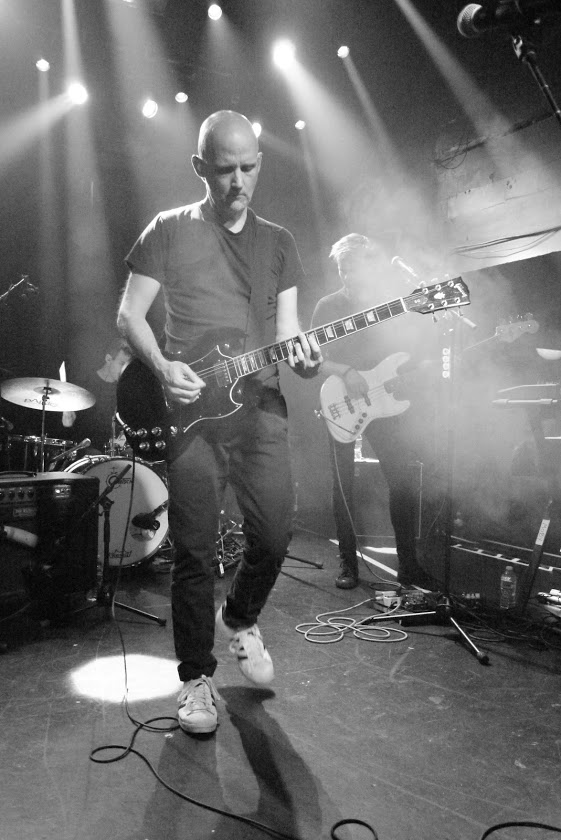 musician moby performing in 2018 at The Echo in Los Angeles, California